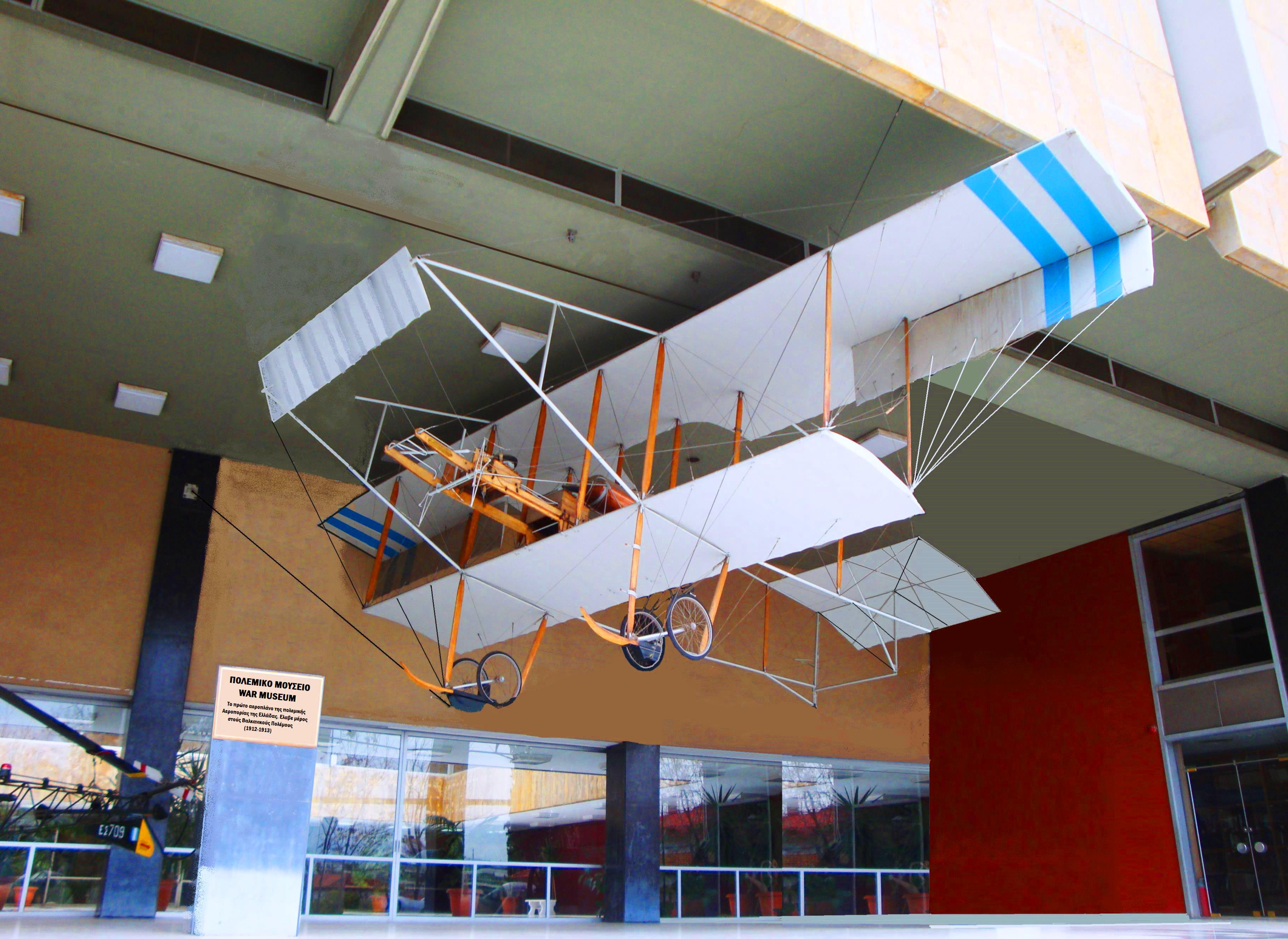 First airplane of Greece